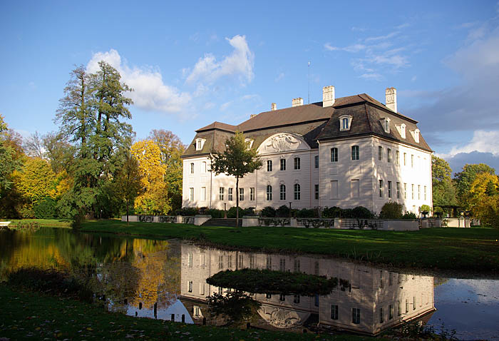 Castle in the park of Branitzer in Cottbus, Germany